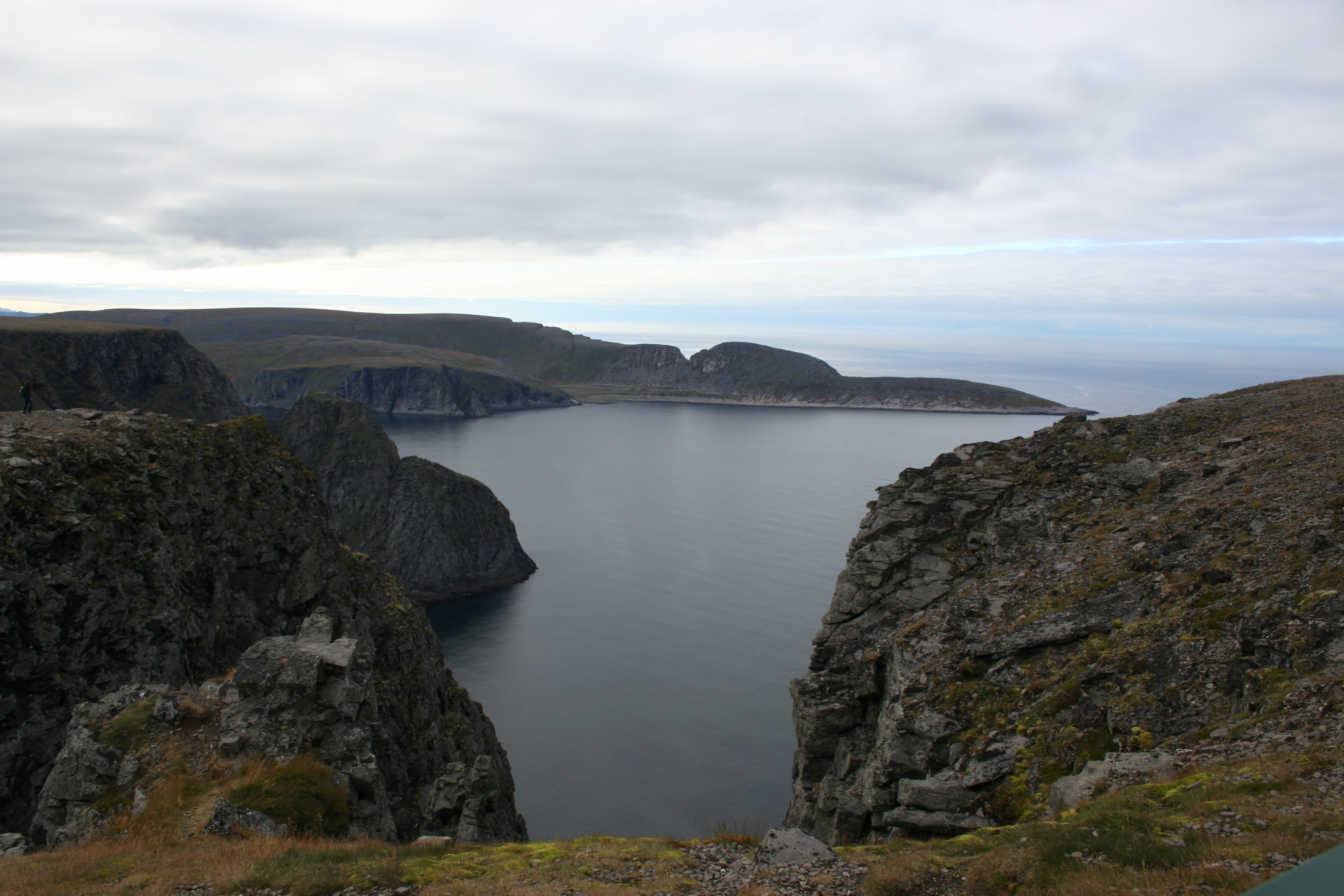 Norway, Knivskjellodden peninsula from Nordkapp